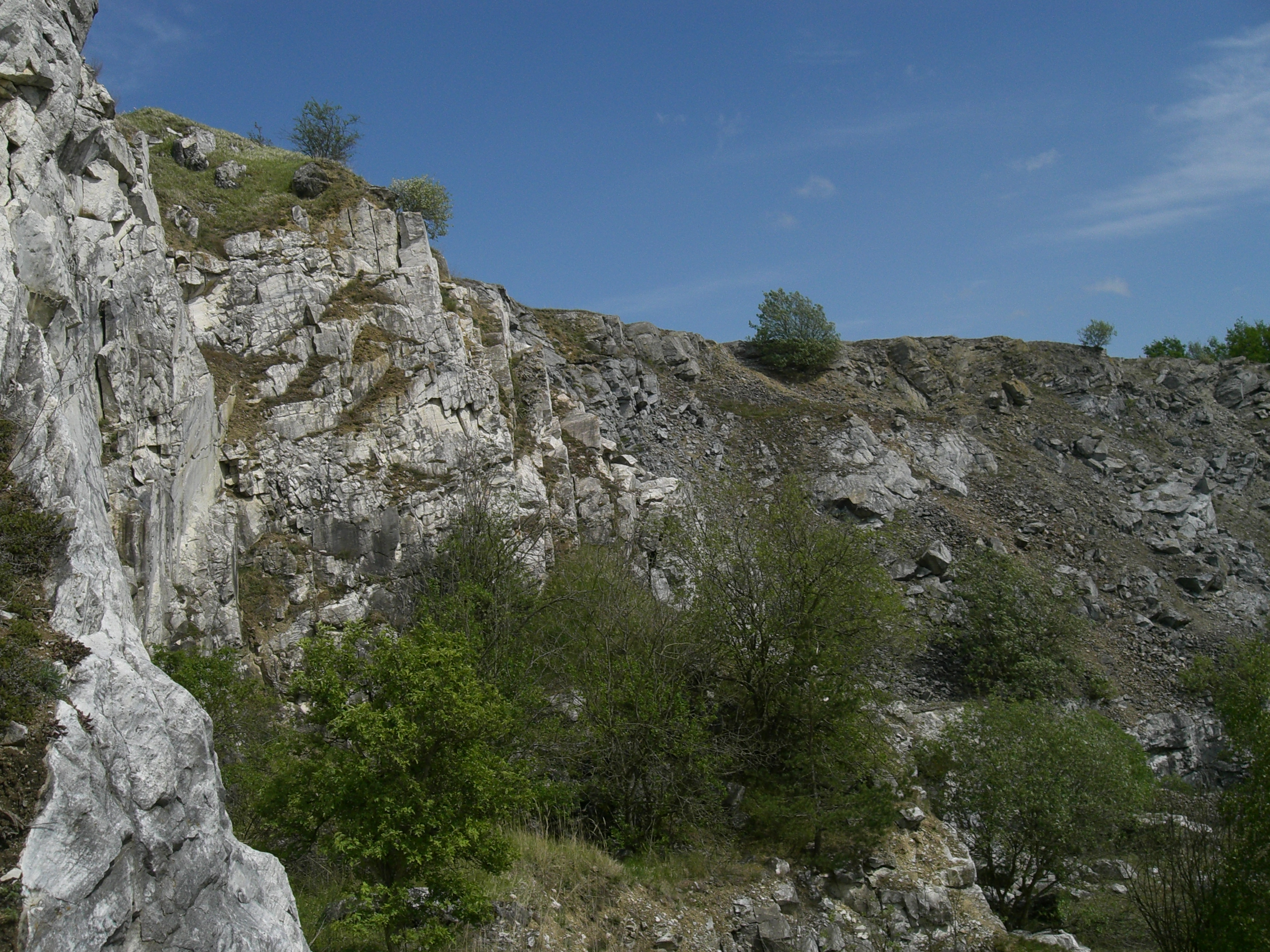 Protect area Nerestský Open-pit mining in Písek district, Czech Republic. 49°30'30.08"N,14°4'5.24"E